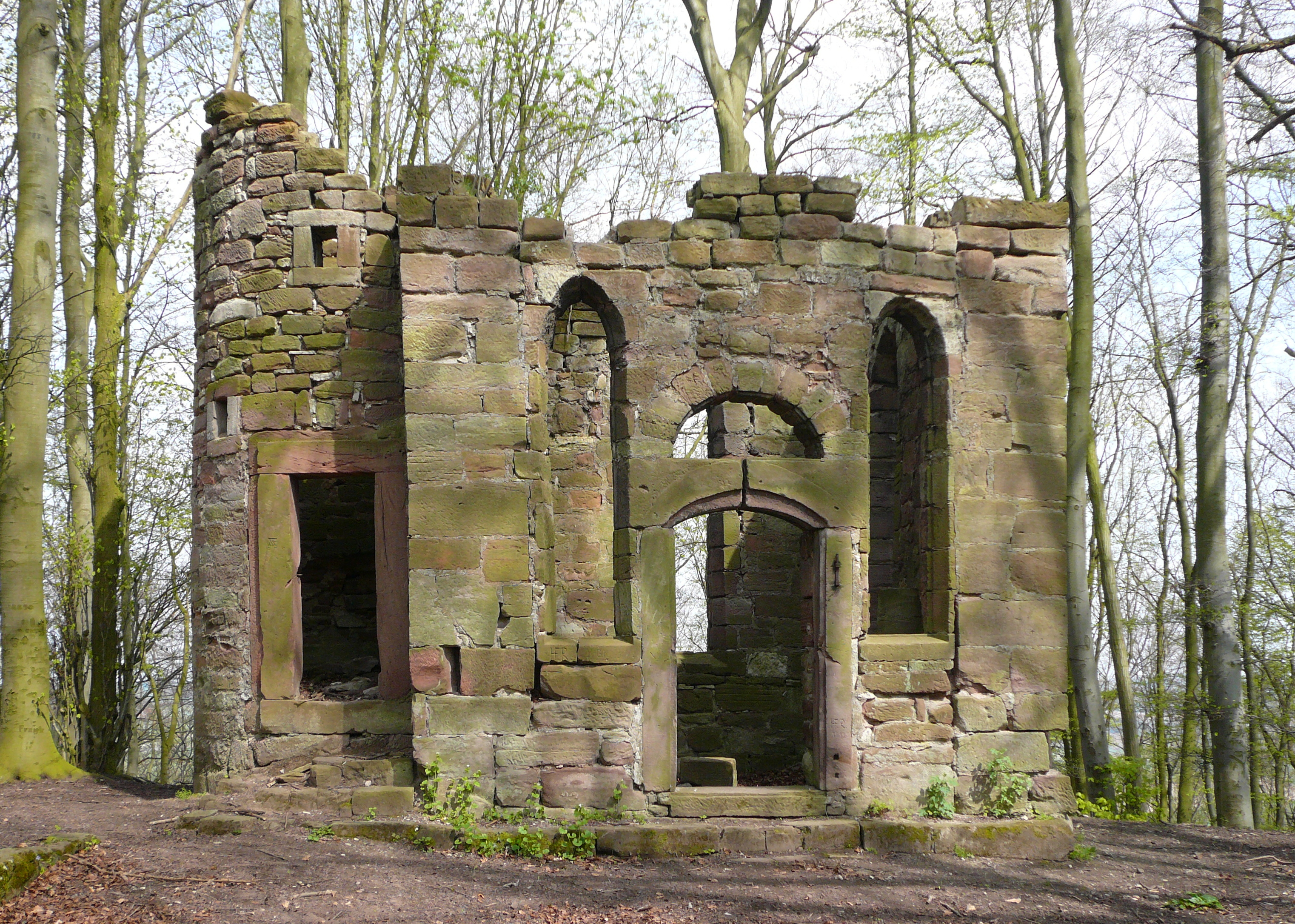 Ruined chapel of Rusteberg castle